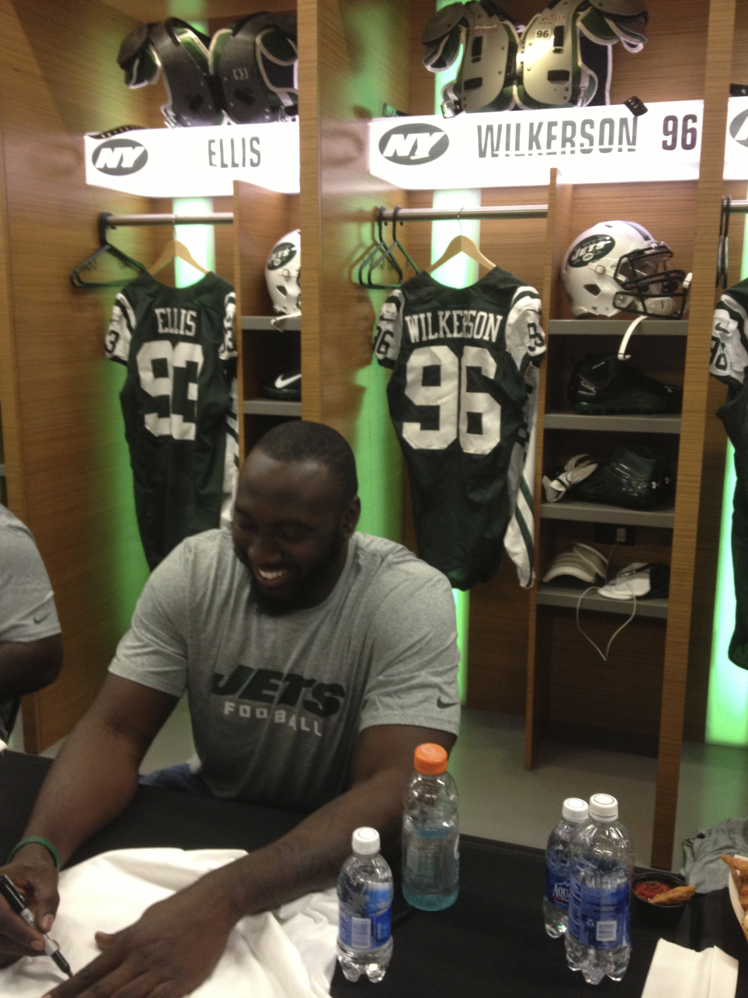 Muhammad Wilkerson signing autographs at the NY Jets Draft Party in the locker room of MetLife Stadium on April 25, 2013.